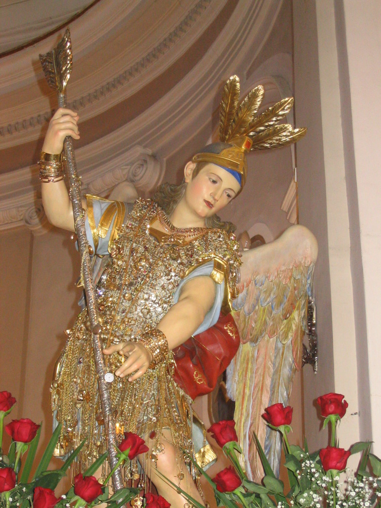 Statua del santo patrono San Michele Arcangelo a Rutino